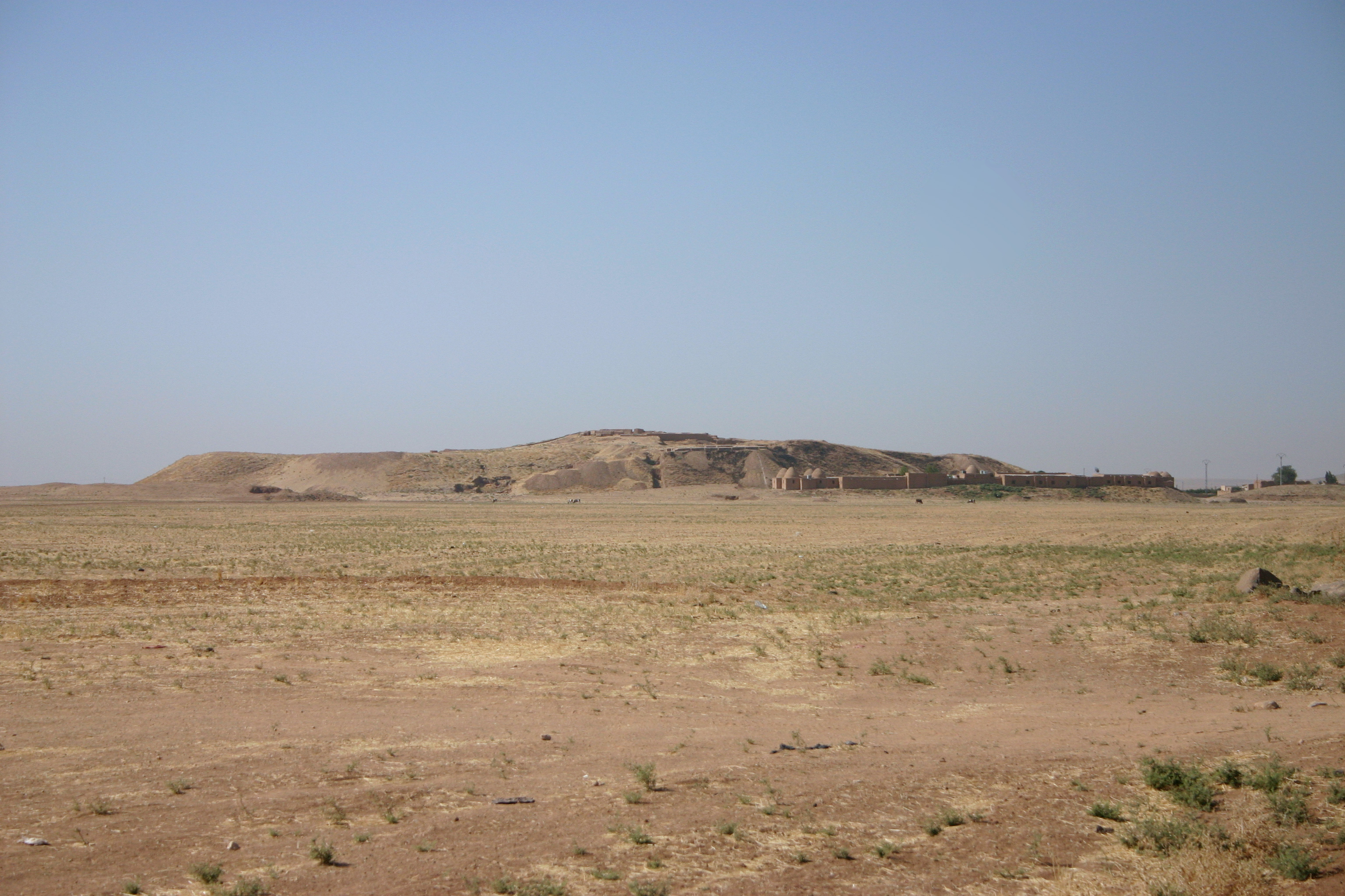 View of Tell Beydar (northeast Syria) from the north. The dighouse can be seen center-right in front of the site.